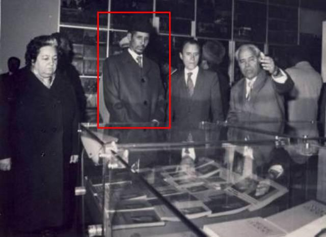 Mohamed Haidalla at MIRSR